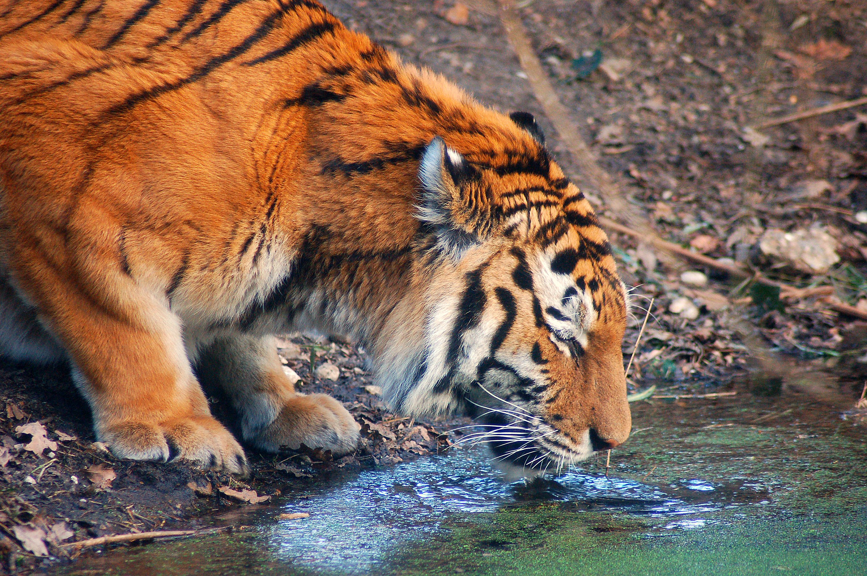 At the pool